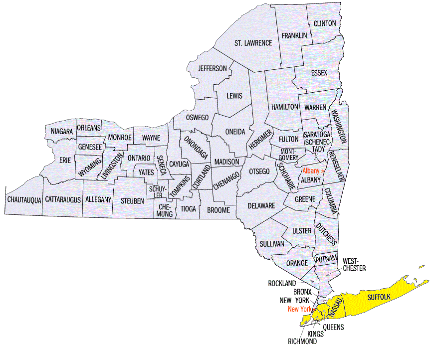 United States Eastern District of New York counties.